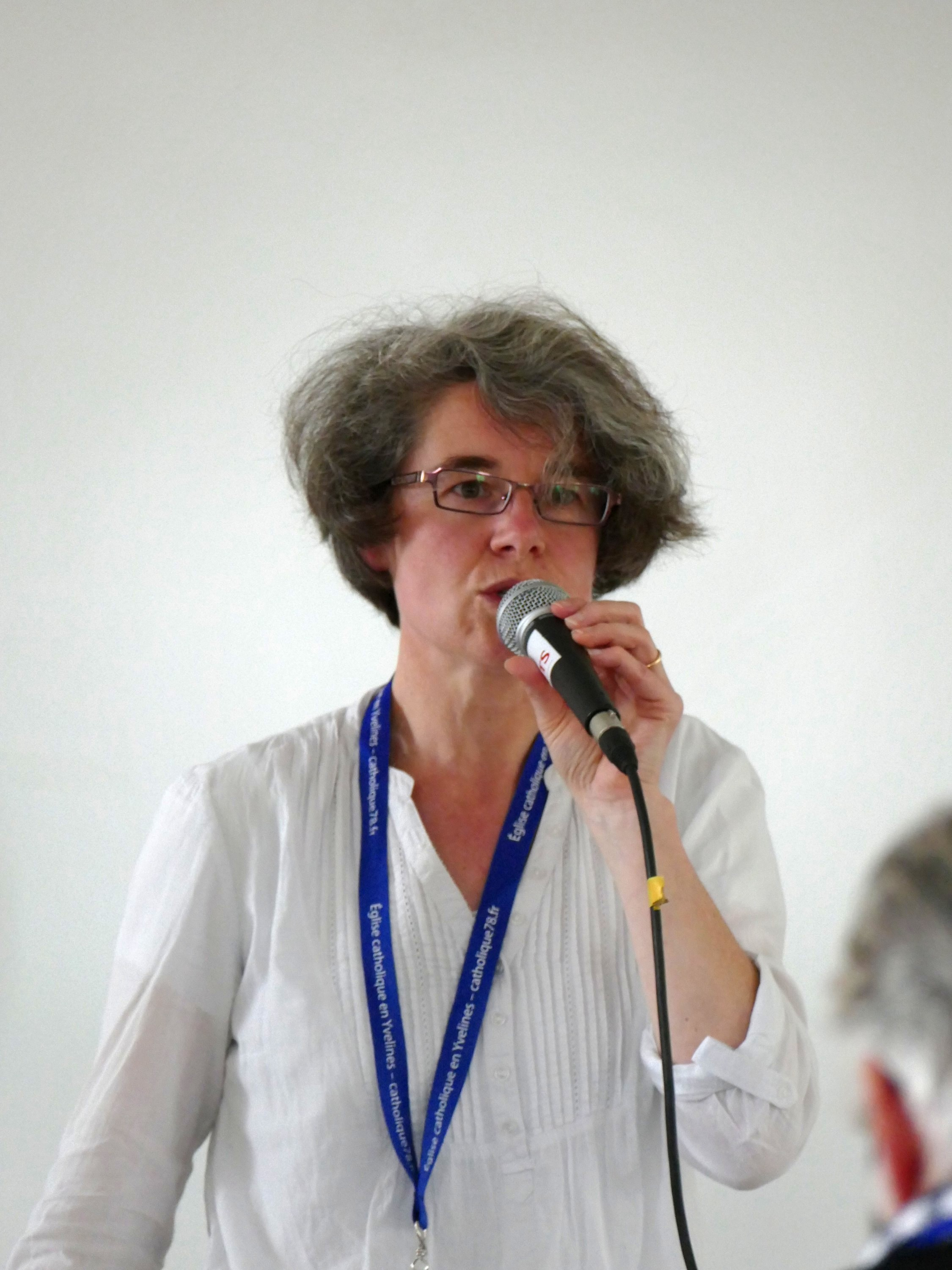 Sister Nathalie Becquart in Versailles (Yvelines, Île-de-France).